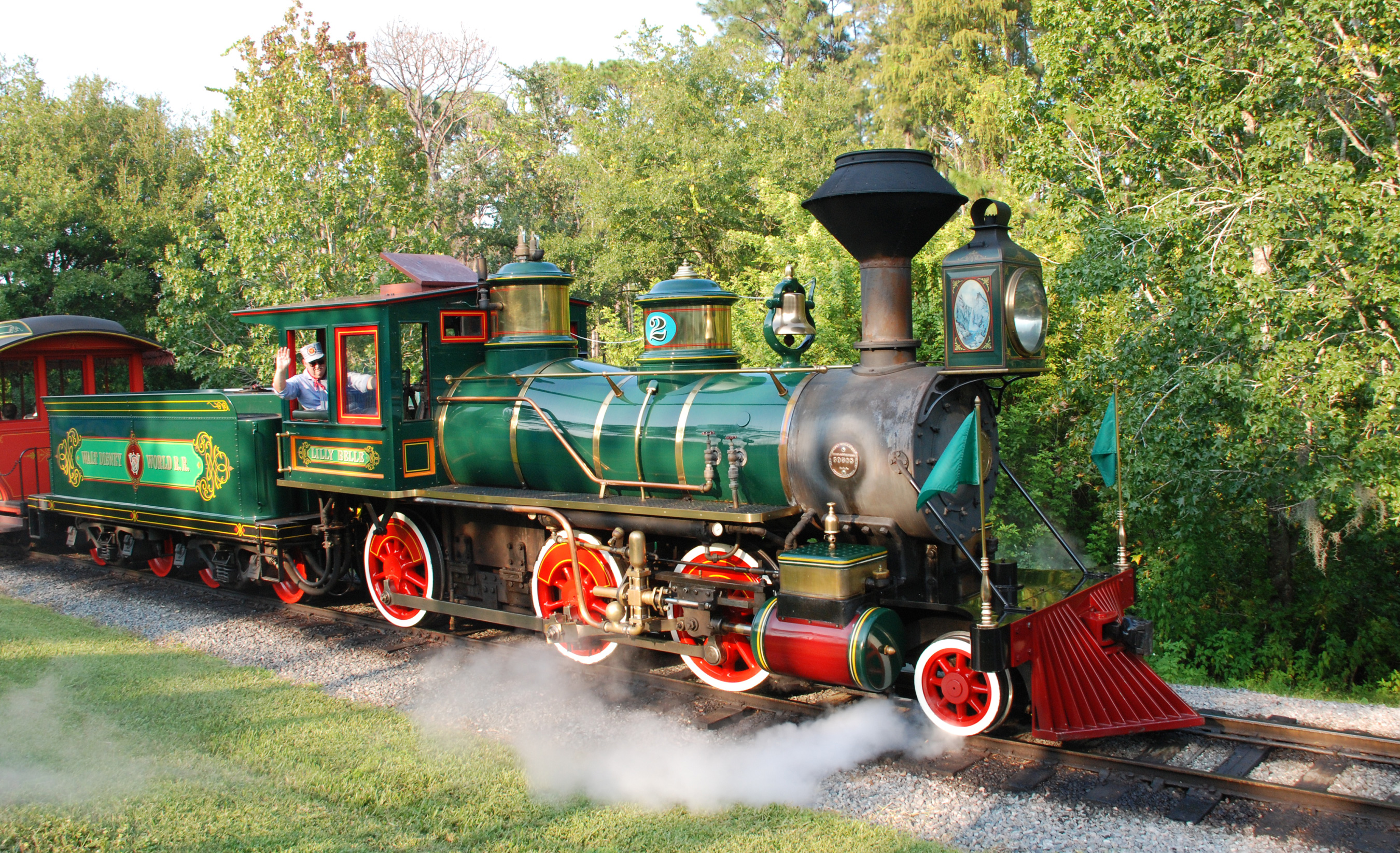 The Lilly Belle pulling the Walter E. Disney's 100 series red coaches (referred to in this case as Lilly E. Disney)